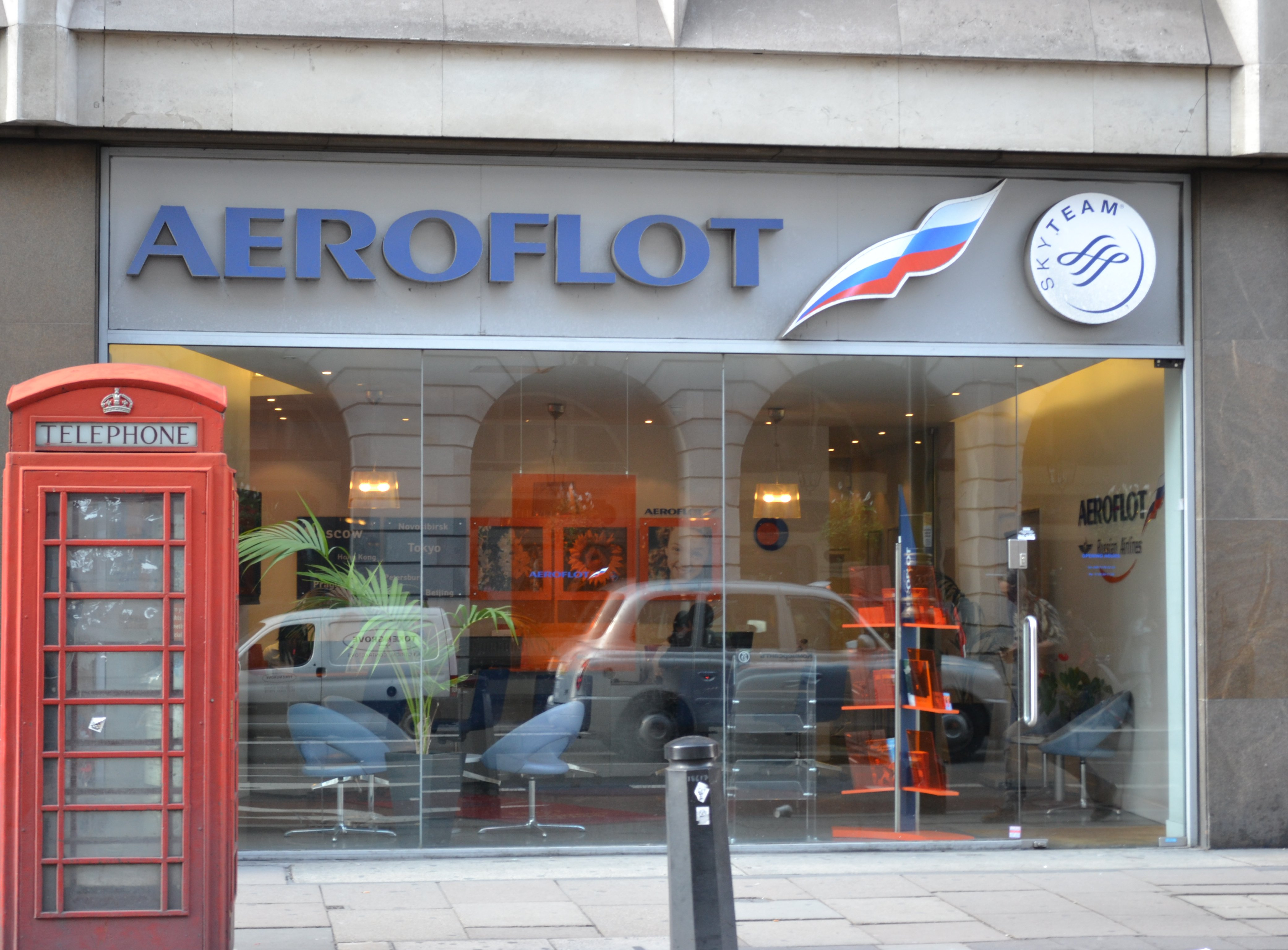 Aeroflot London Office - 70 PICCADILLY, LONDON W1J 8HP, United Kingdom